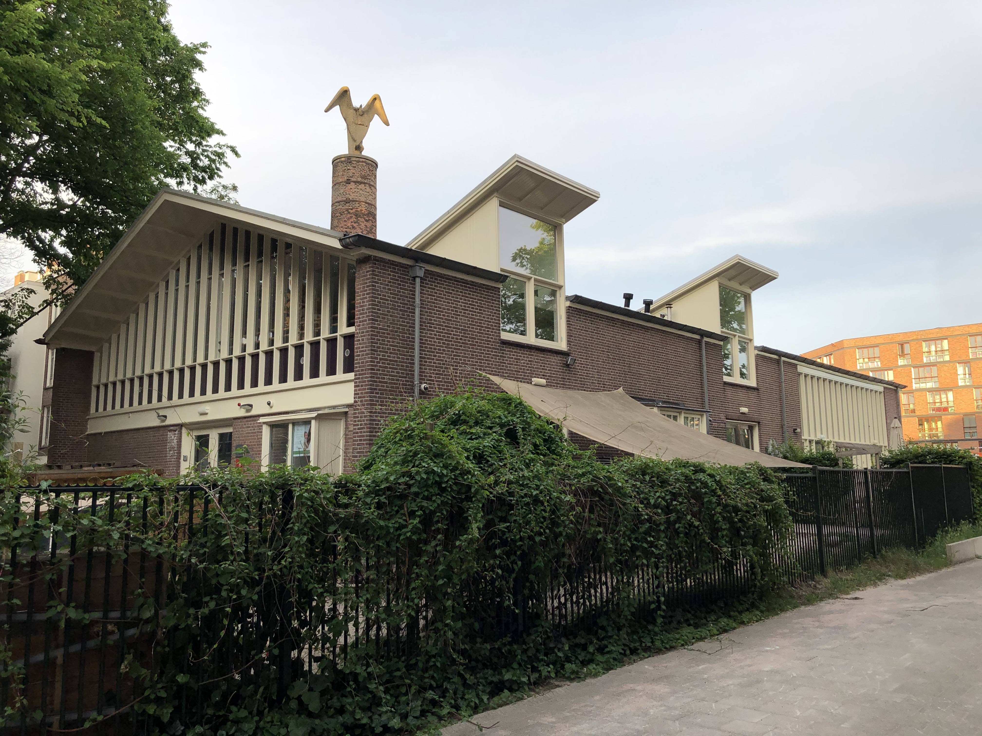 Blankenstraat 2, Amsterdam. Municipal monument, named after the Han Richters statue on the chimney.